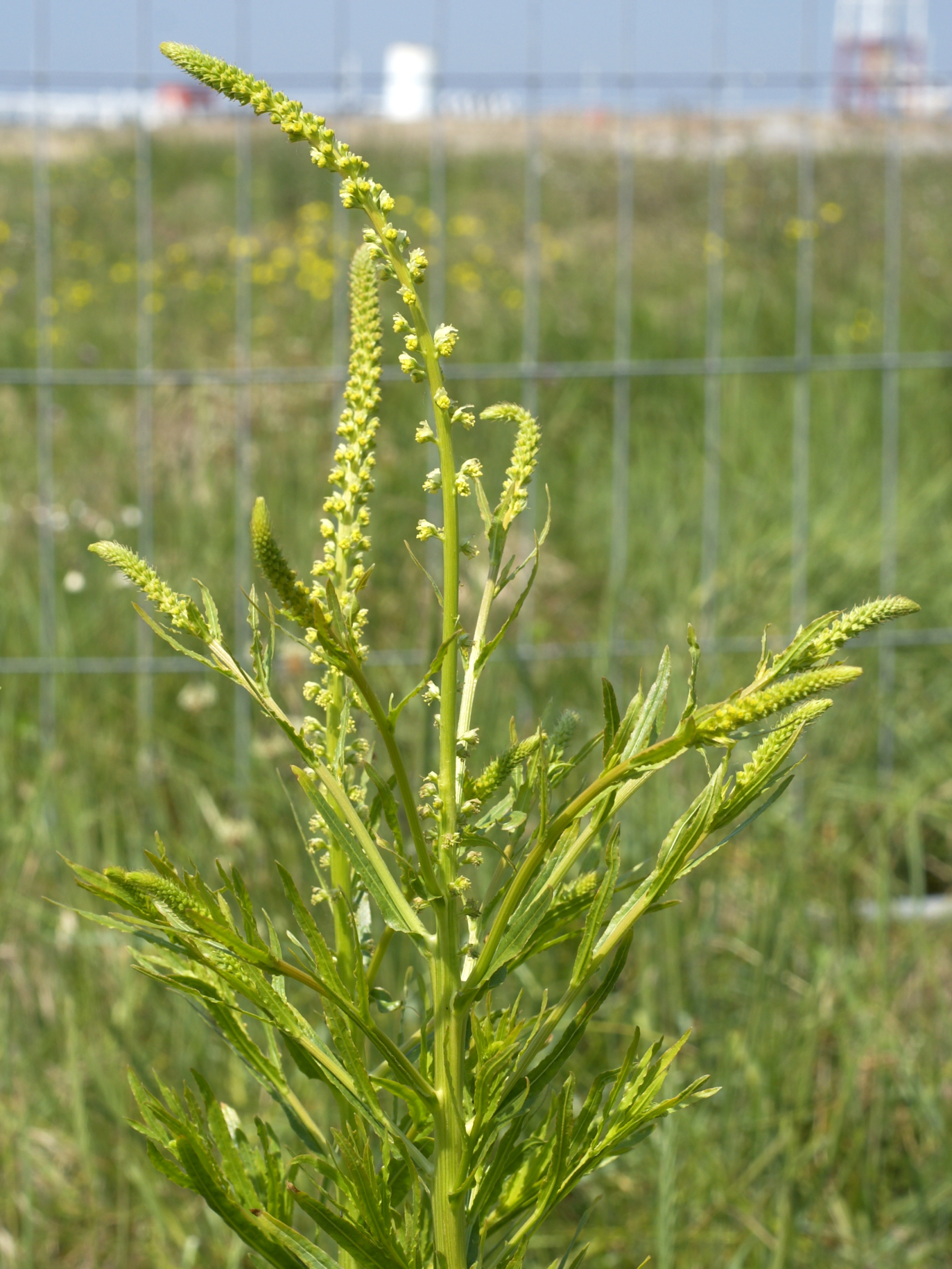 Weld, habitat behind fish auction buildings at Oostende, Belgium